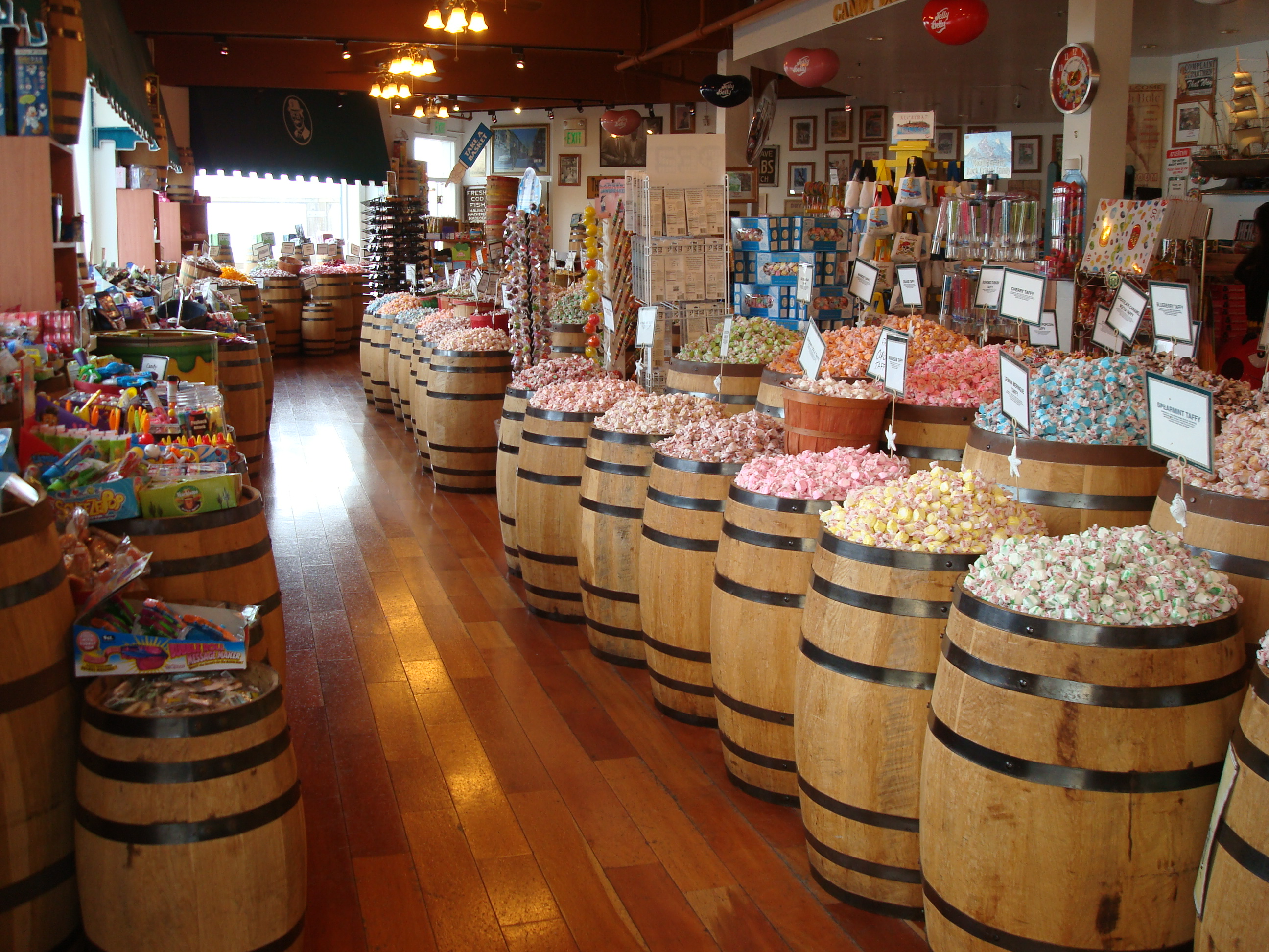 candy store in Sacramento, Californie